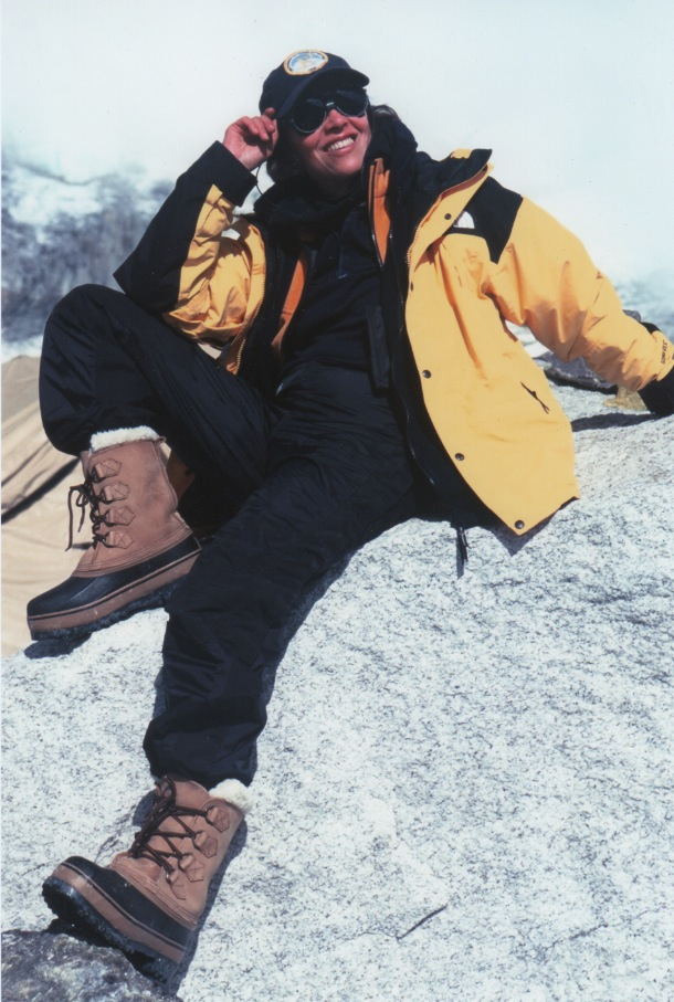 Faanya Rose by explorer Robert Hyman at Everest Base Camp, 1999.